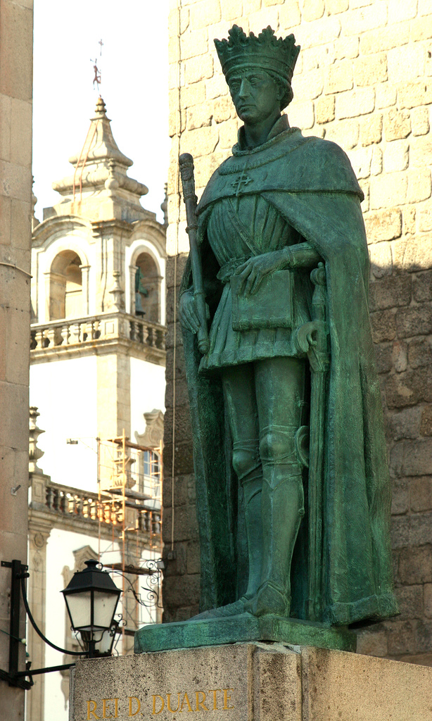 Statue of King Duarte I in Viseu, Portugal